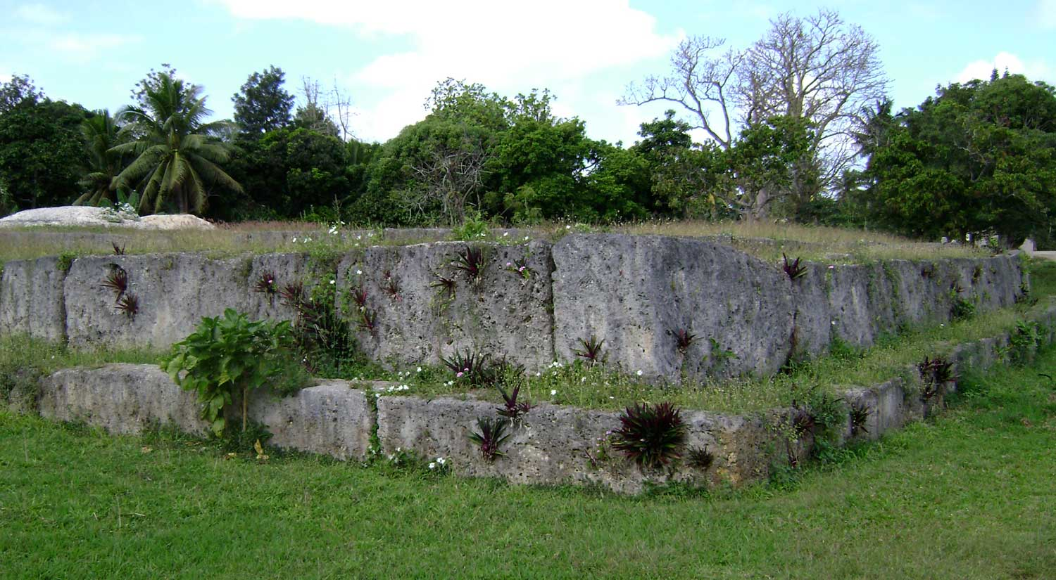 Paepae ʻo Teleʻa, the best preserved ancient royal burial mound in Lapaha, Tonga